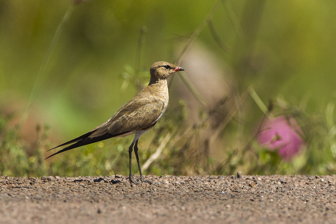 Australian Pratincole - Fogg dam - Darwin_S4E4299